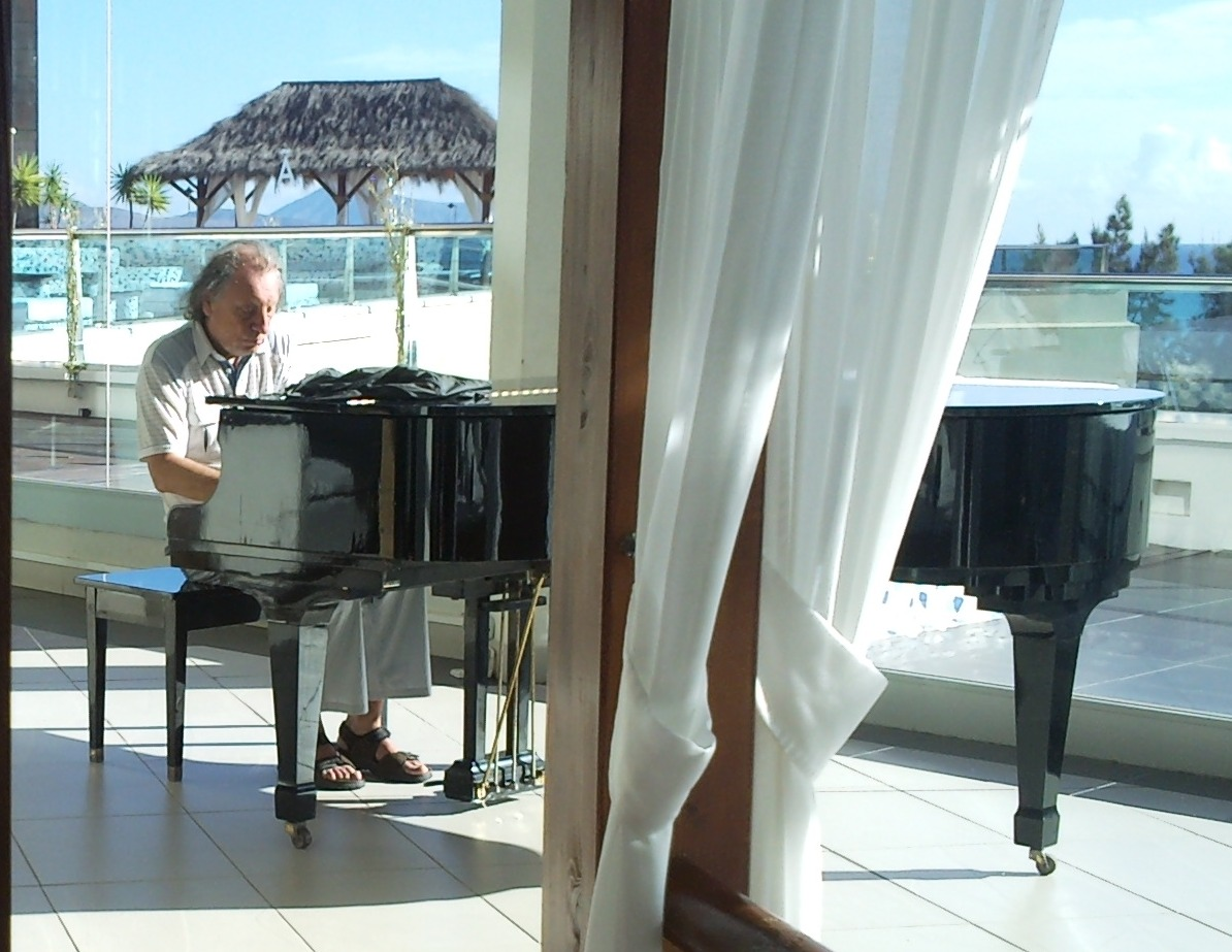 Radoslav Kvapil preparing for a concert in Hotel Melia Gorriones, Fuerteventura